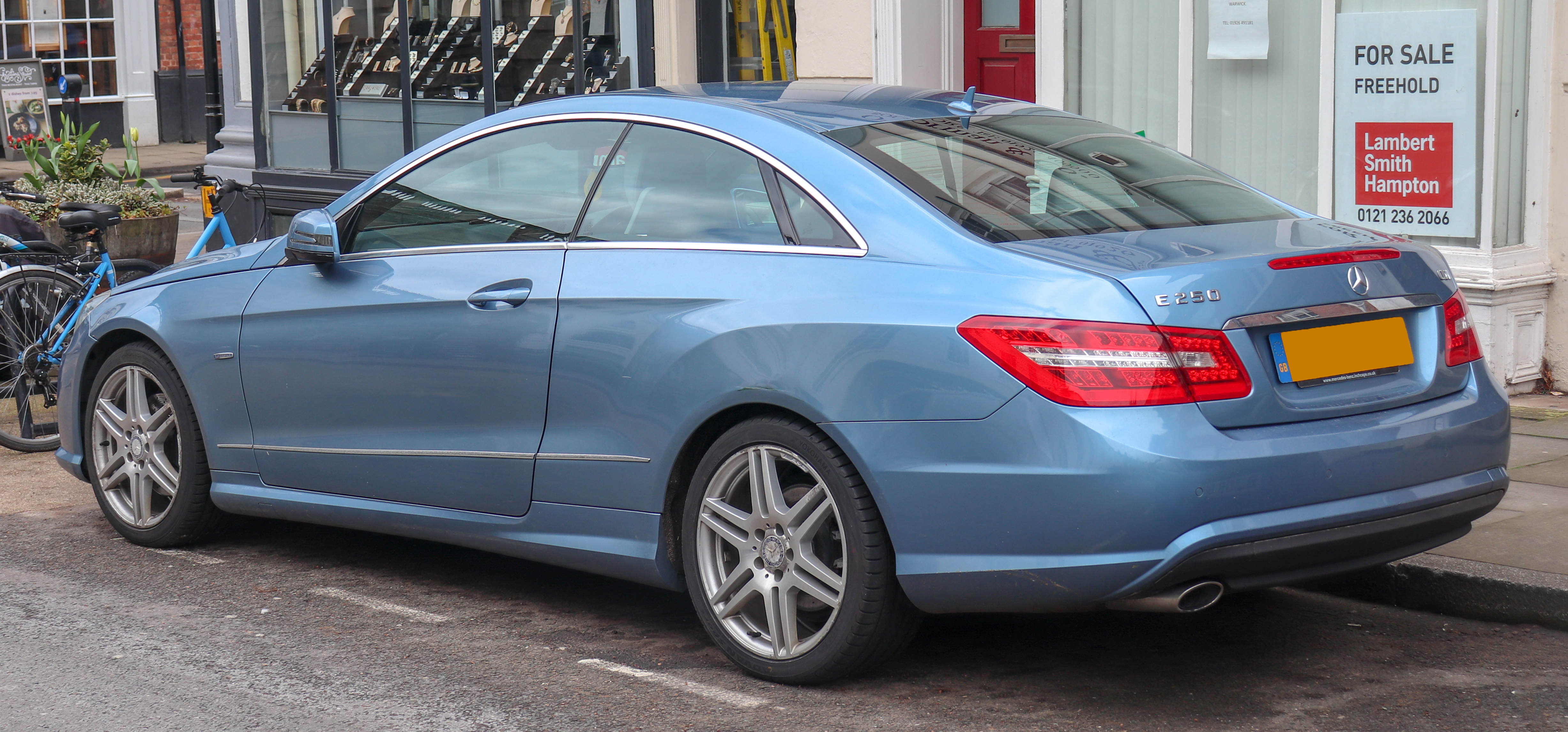 2011 Mercedes-Benz E250 Sport CDi BlueEFFICIENCY Coupe 2.1 Rear Taken in Warwick